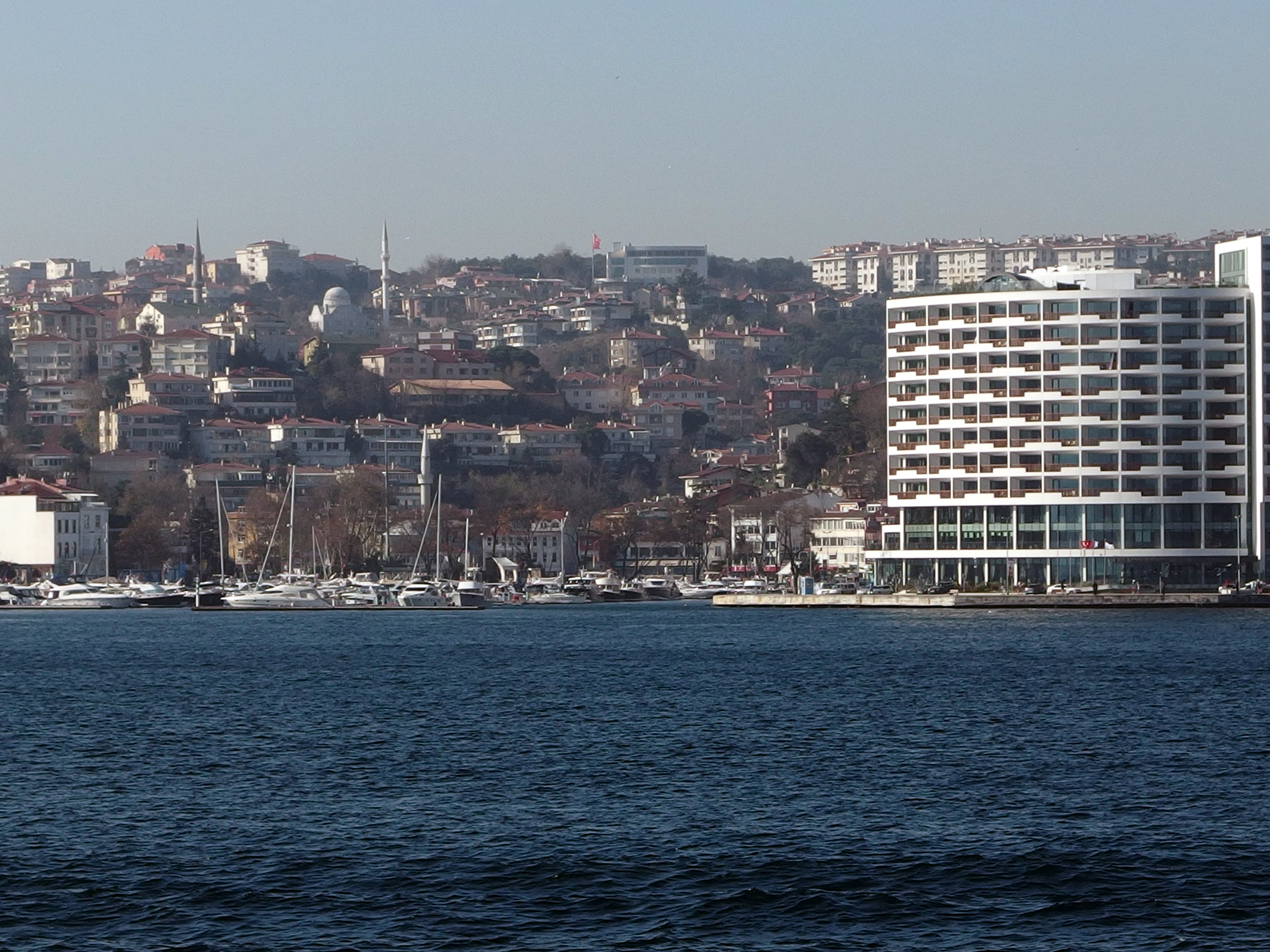 2013-12-06 in Istanbul.